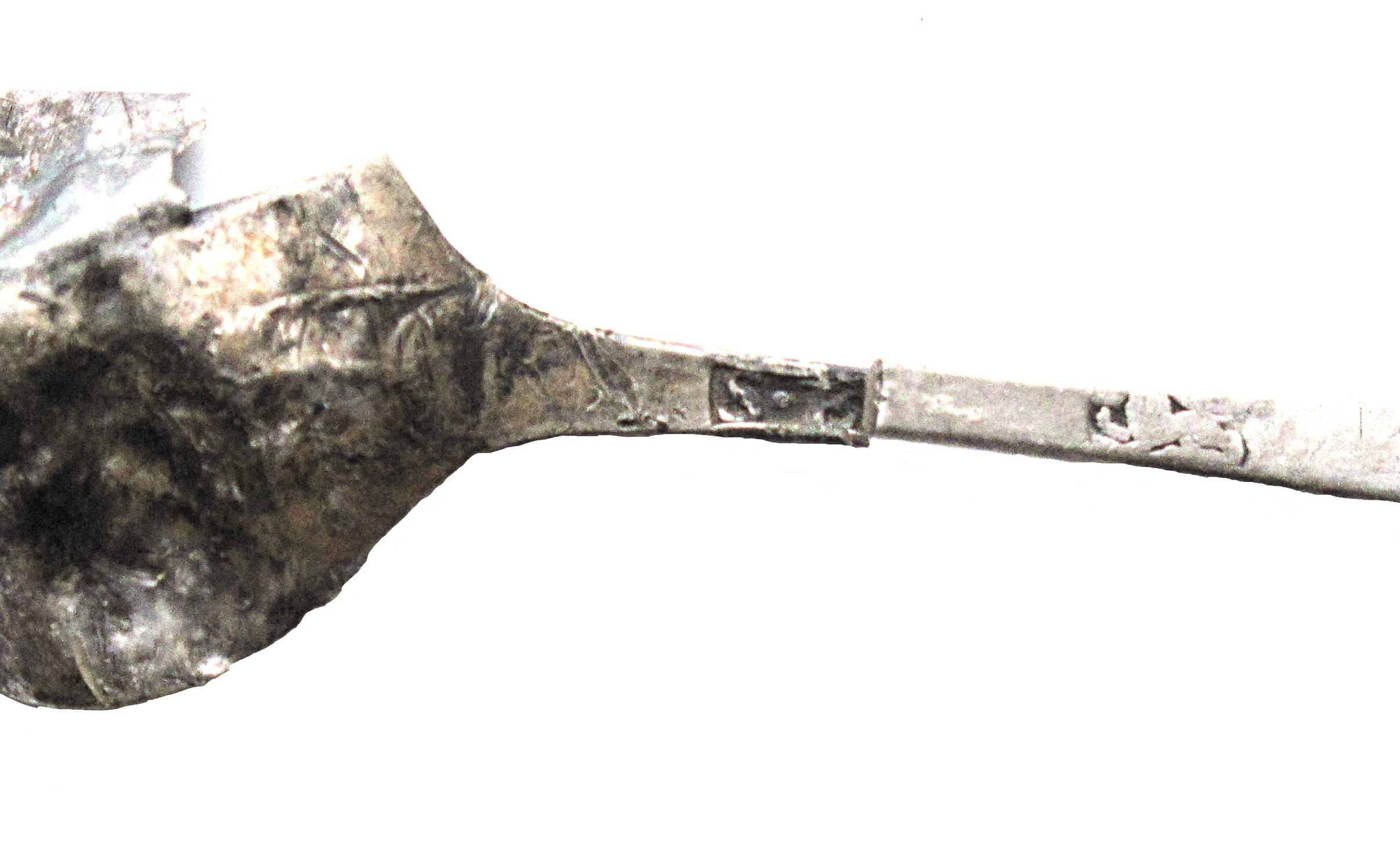 A complete silver teaspoon in two parts dating to the post medieval period. The object has an oval bowl which is folded and badly damaged, The stem of the spoon is narrow and D-shaped in section before widening and flatterning to the rounded terminal. On the back of the stem there is a hallmark of a lion rampant and the letters S E which probably refer to the silversmith. On the flattened terminal are the letters A B which probably refer to the owner of the spoon. A similar object has been recorded on the PAS database: SUR-7D3101.